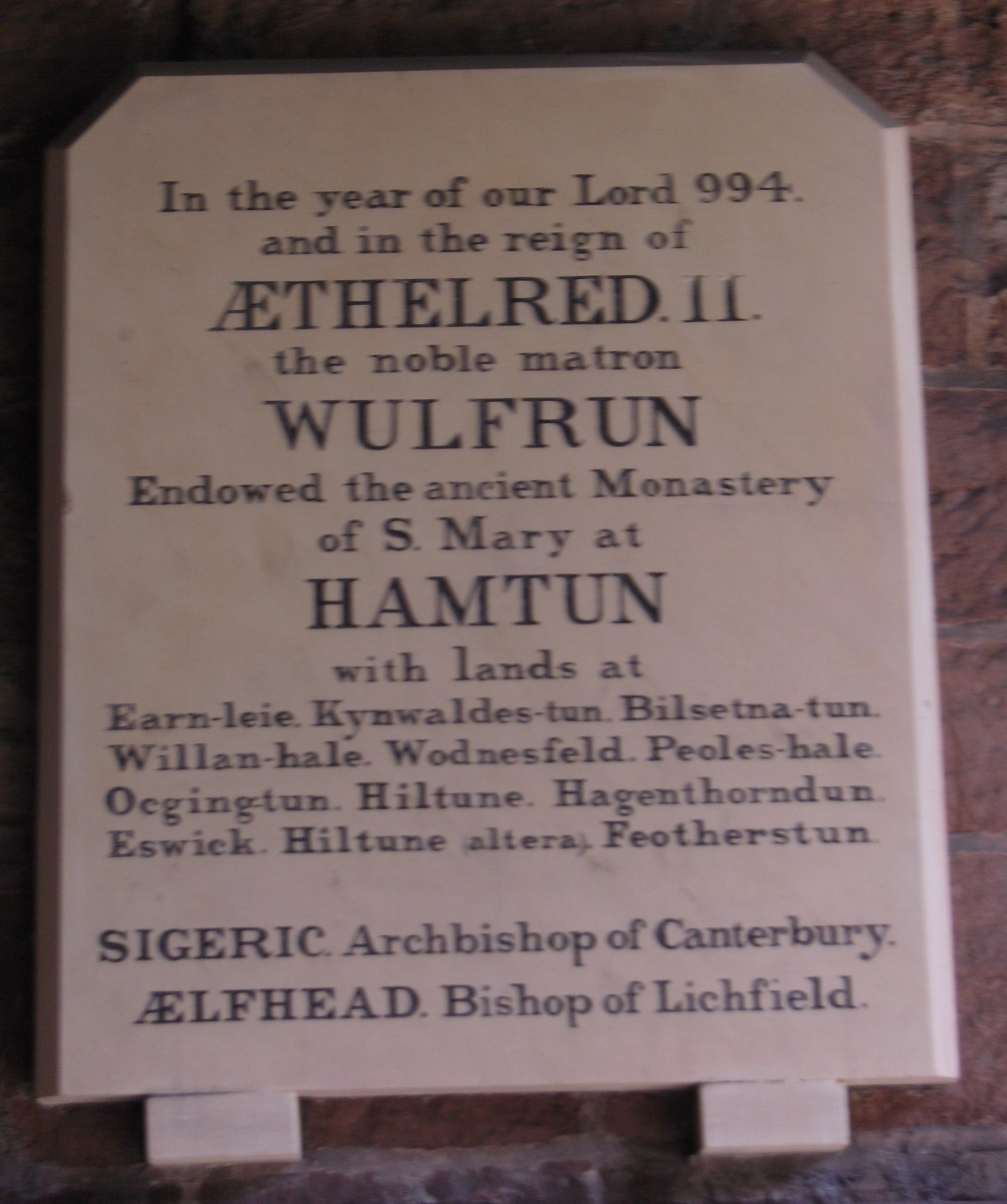 Tablet commemorating the bequest of Wulfrun, eponym of the City of Wolverhampton, which is the foundation charter of St. Peter's Collegiate church, Wolverhampton, West Midlands, England. Parish of Central Wolverhampton WV1 1TS.